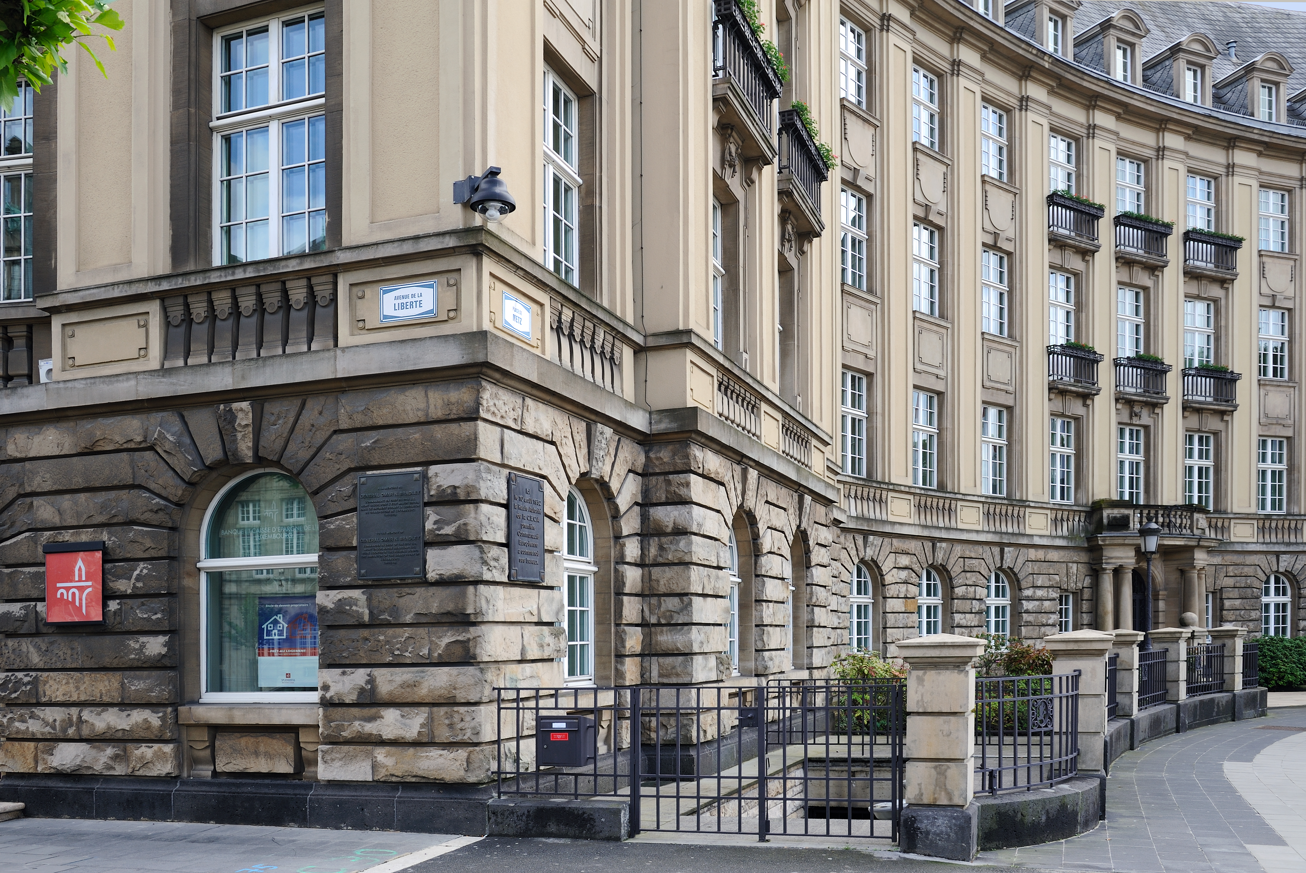 Luxembourg City, building of Banque et caisse d'épargne de l'Etat, avenue de la Liberté and place de Metz. The plaque at the right commemorates the first meeting of the Haute autorité of the European Coal and Steel Community in 1952. The plaque at the left commemorates the presence of the General Omar N. Bradley of the US Army in Luxembourg in 1944 when the City was liberated.